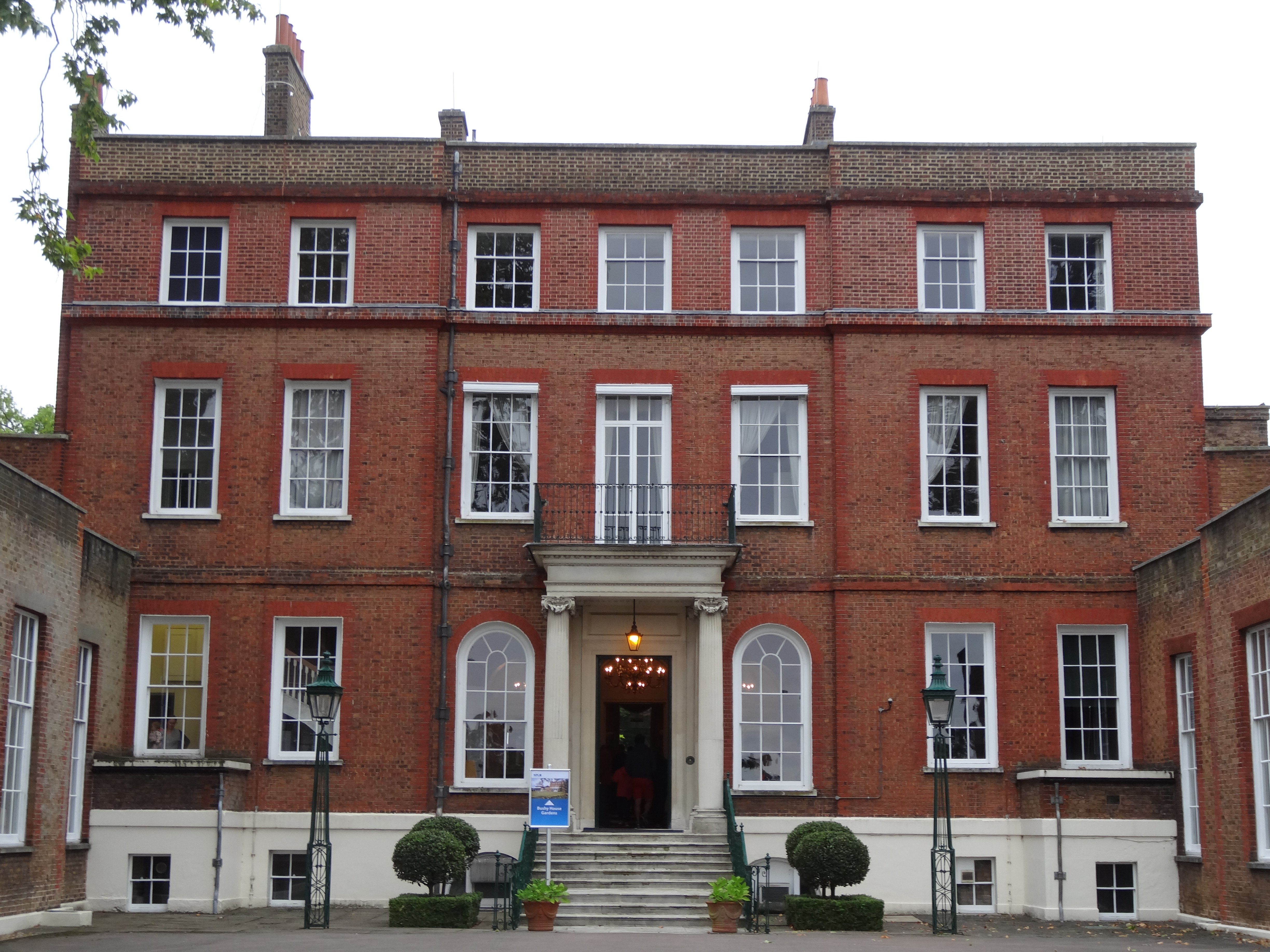 Bushy House, NPL open day 2016